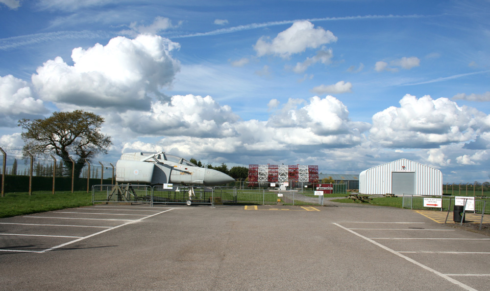 Nose of Phantom jet & other exhibits at Hack Green Secret Nuclear Bunker, Cheshire